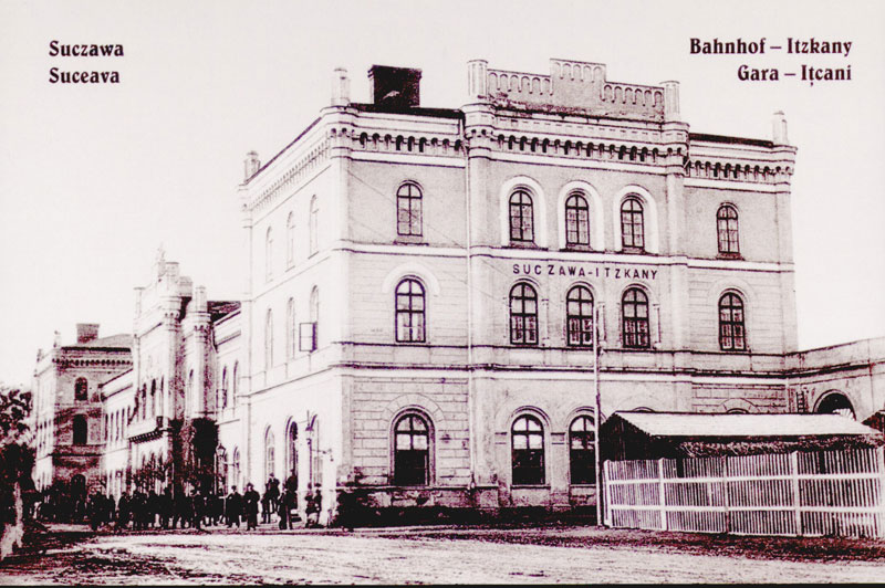 Suceava North (Iţcani) train station - photo of the Austro-Hungarian period.